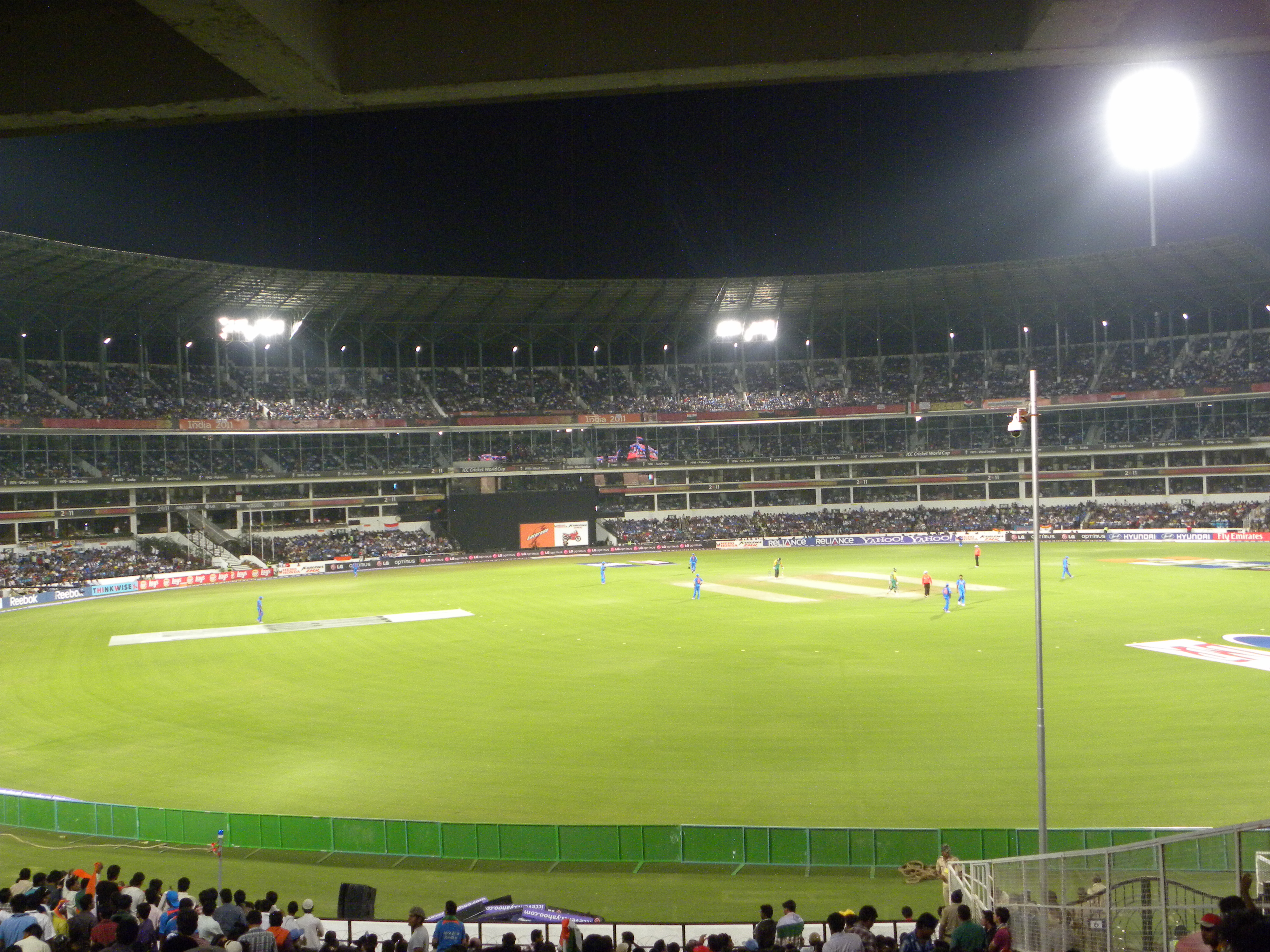 Australia tour of India, 2nd ODI: India v Australia at Vidharba Cricket Association Stadium